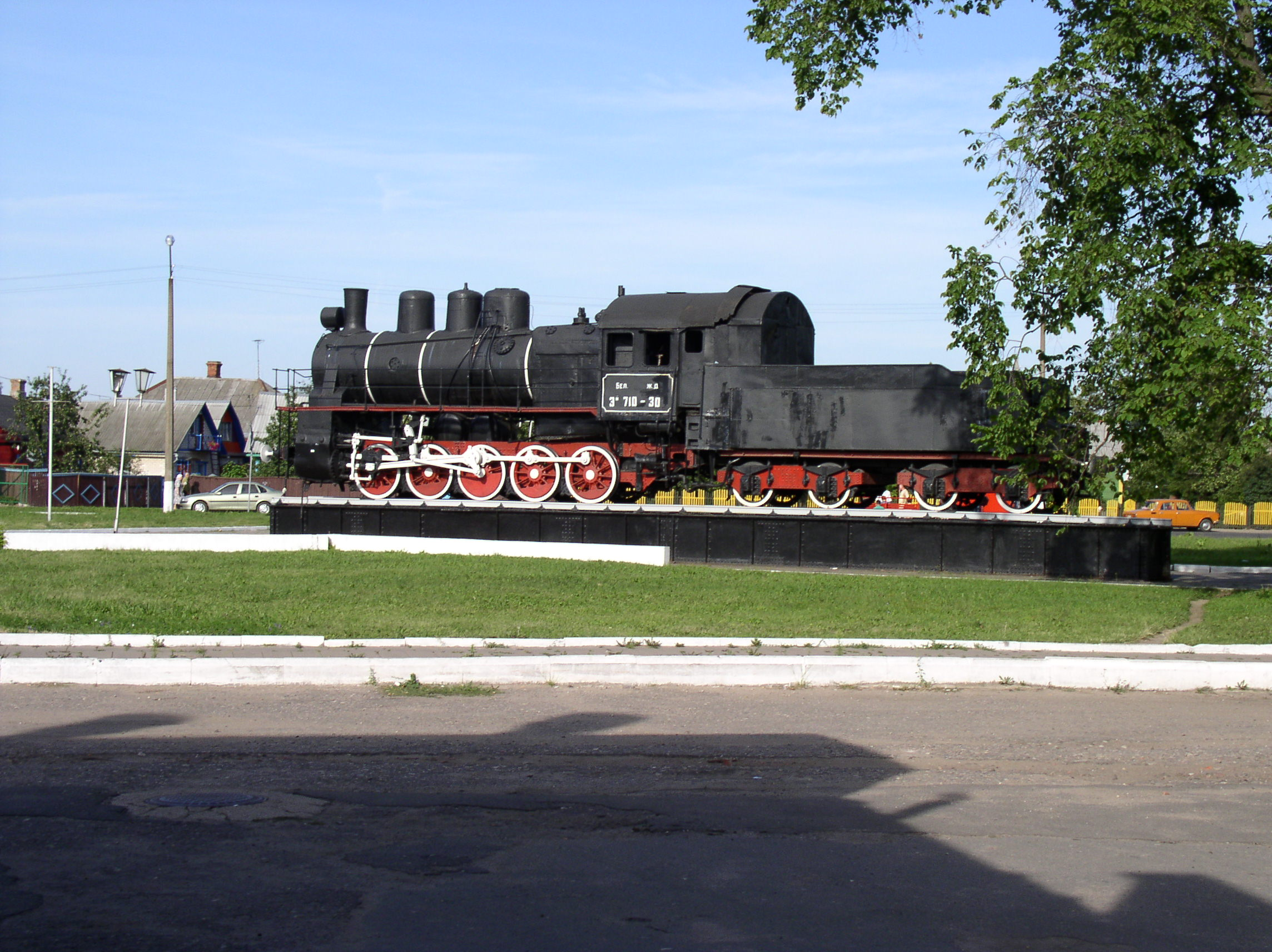 Steam locomotive. Baranavichy, Belarus.